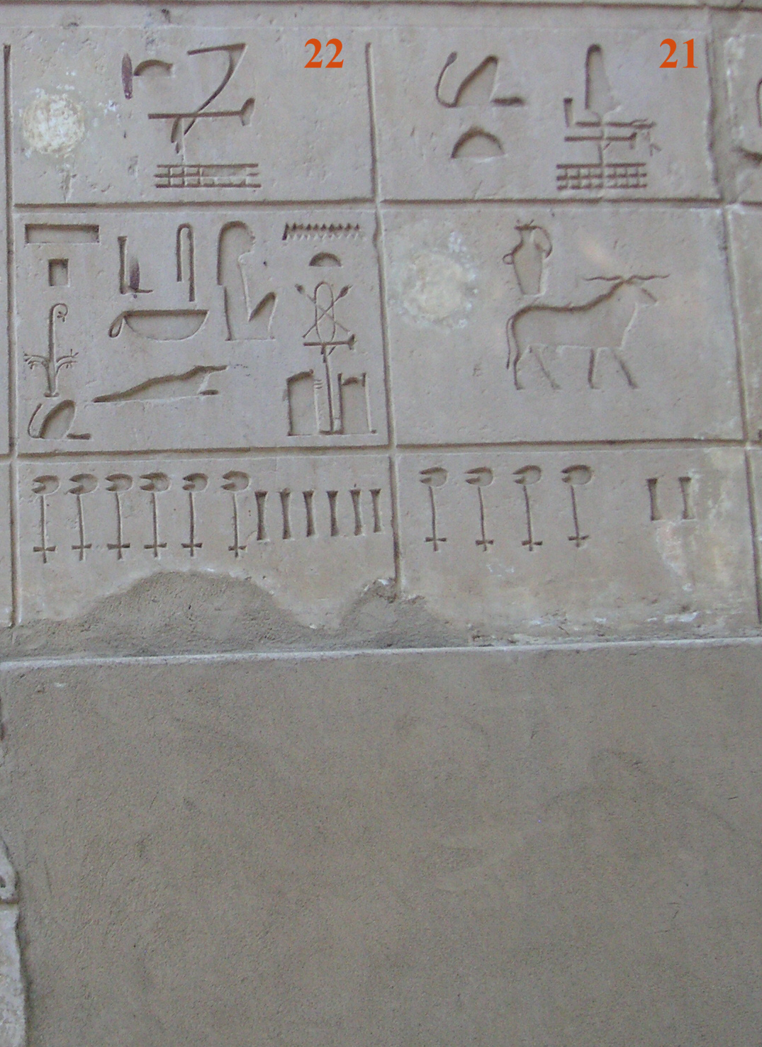 Nome 21 to 22 of Upper Egypt (list of Sesostris I.)